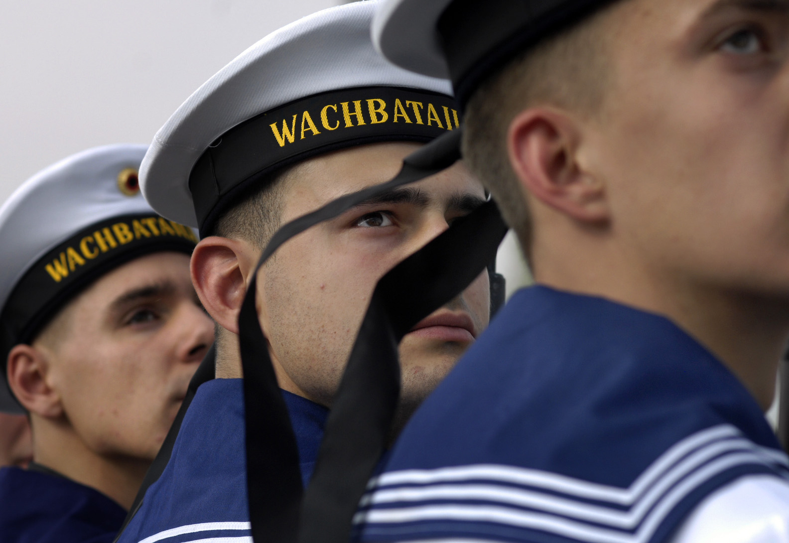 German military members greet U.S. Defense Secretary Robert M. Gates as he arrives in Berlin, April 25, 2007.